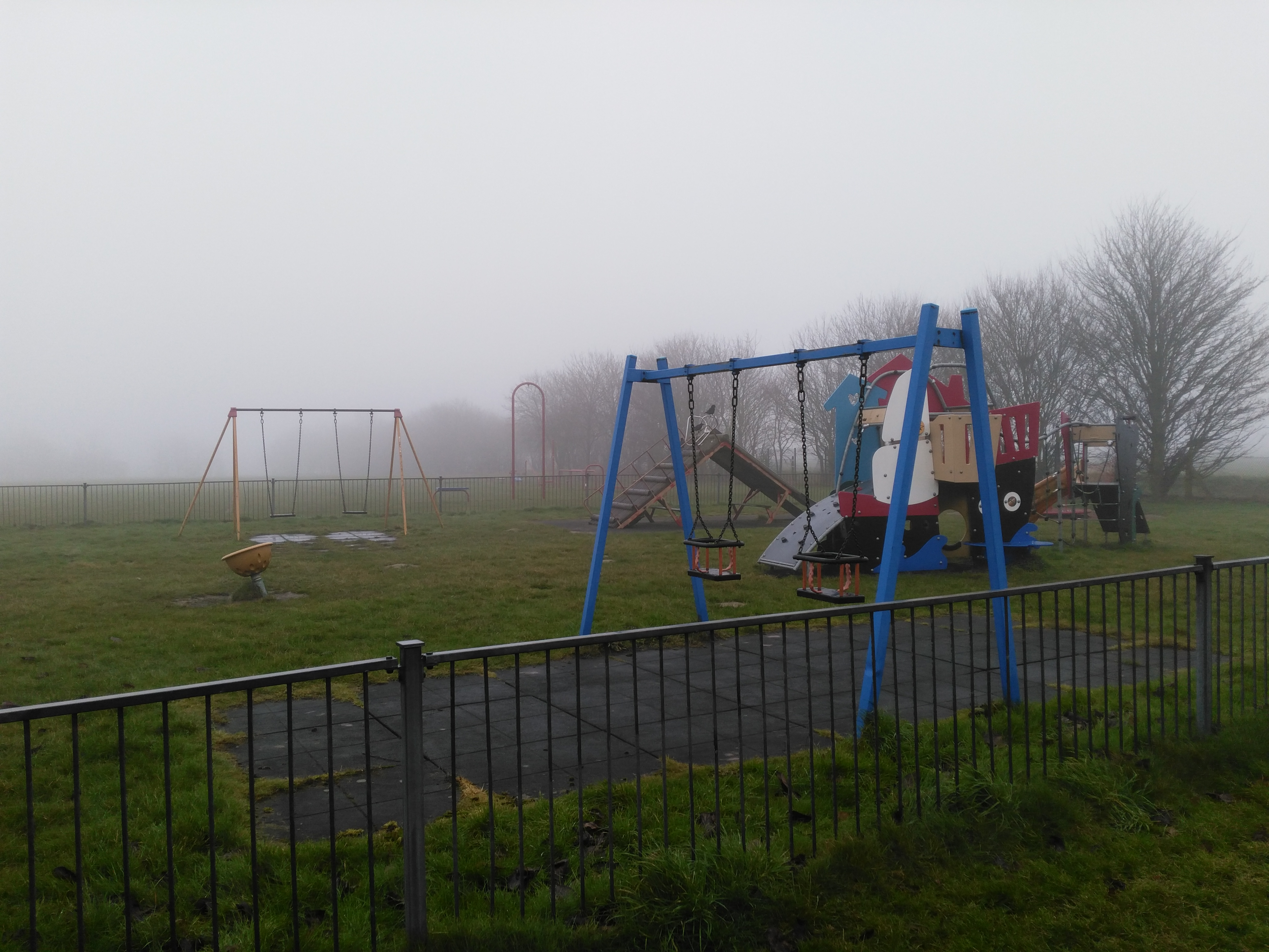 Enclosed children's play area at Eastward Ho!, Felixstowe. Location is featured in Ed Sheeran's music video for the single Castle on the Hill.